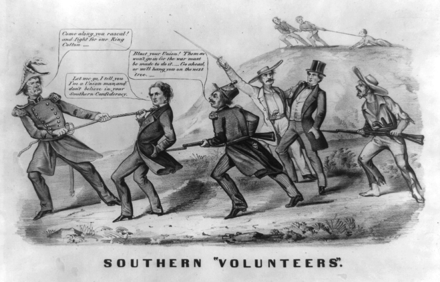 Unionists throughout the Confederate States, including Germans, resisted the imposition of conscription in 1862. Title: Southern "volunteers" Summary: The print may have appeared soon after the Confederate Congress passed a national conscription act on April 16, 1862, to strengthen its dwindling army of volunteers. The artist characterizes regular Confederate troops as unsavory, criminal types. Two of them (in uniform, left and center) have a well-dressed young gentleman in tow. The leader pulls on a rope around the reluctant recruit's neck, saying, "Come along you rascal! and fight for our King Cotton." The man protests, "Let me go, I tell you I'm a Union Man, and don't believe in your Southern Confederacy." He is prodded by the bayonet of a second soldier, gin flask protruding from his pocket, who urges, "Blast your Union! Them as won't go in for the war must be made to do it. Go ahead, or we'll hang you on the next tree." A second group follows. Two men in wide-brimmed hats have seized another gentleman, and urge him at bayonet point toward the left. One of the men, barefoot and ragged, with a knife and pistol in his belt, resembles a Mexican bandit. Atop a nearby hill two soldiers drag a third civilian along the ground by a rope around his neck. The print is comparable in both style and political sympathy to contemporary prints by Currier & Ives, such as "Re-Union on the Secesh-Democratic Plan" (no. 1862-10).